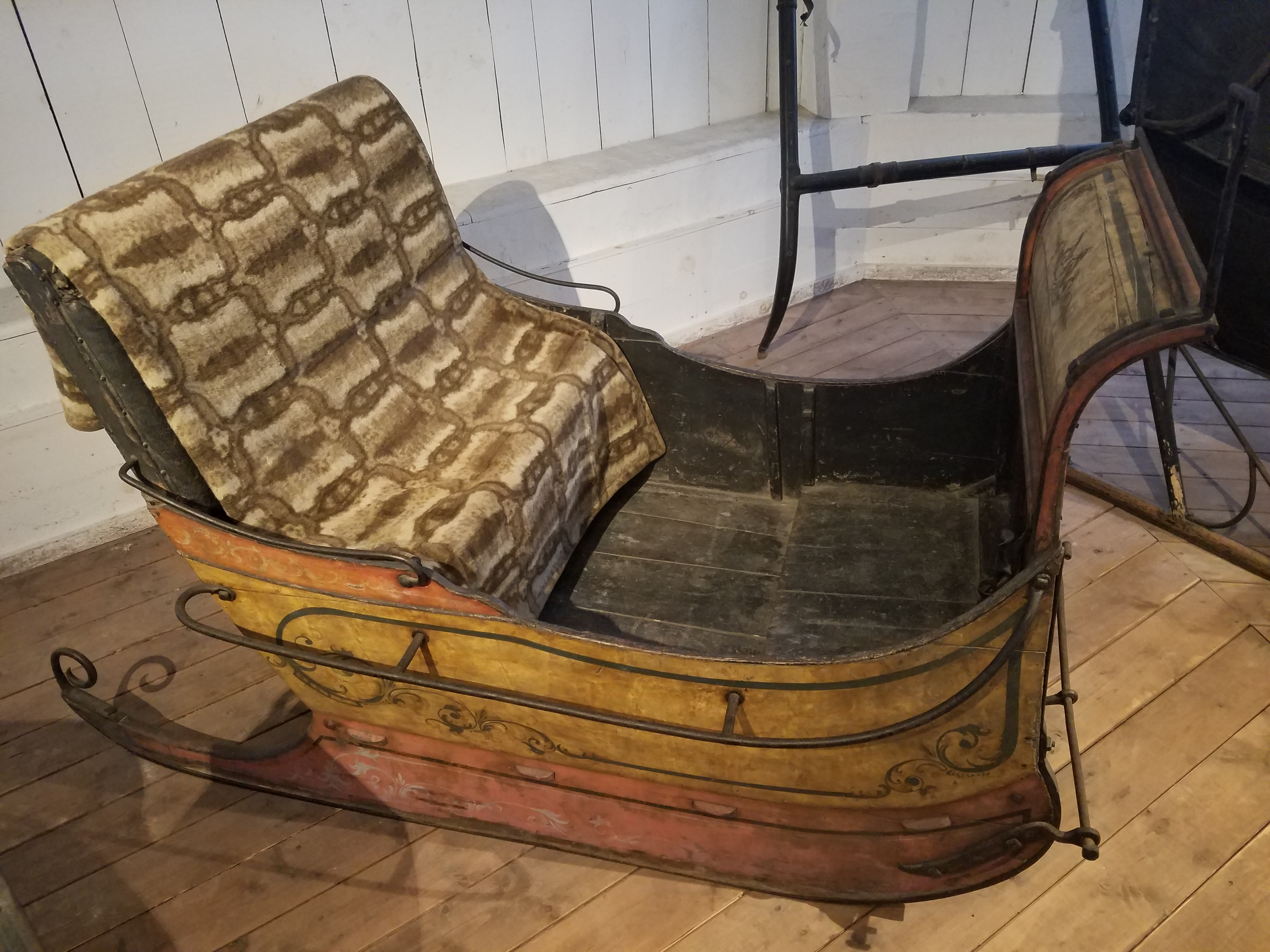 Cariole on display at the Shelburne Museum. Item 40-S-57. Cariole was used by the previous generation of the Webb family who founded the museum at their home in Westbury Long Island.